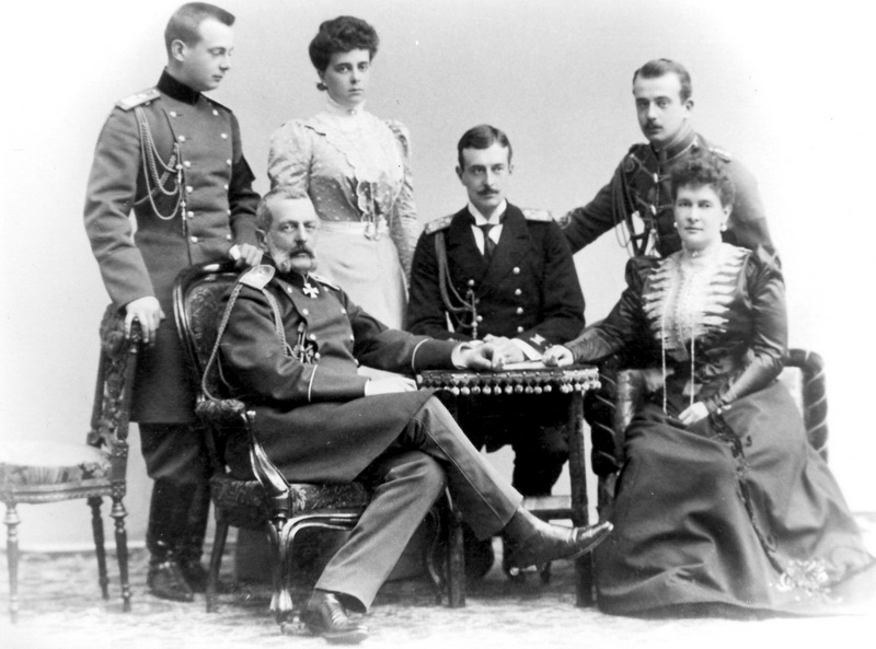 Grand Duke Vladimir Alexandrivich of Russia with his wife and their four children